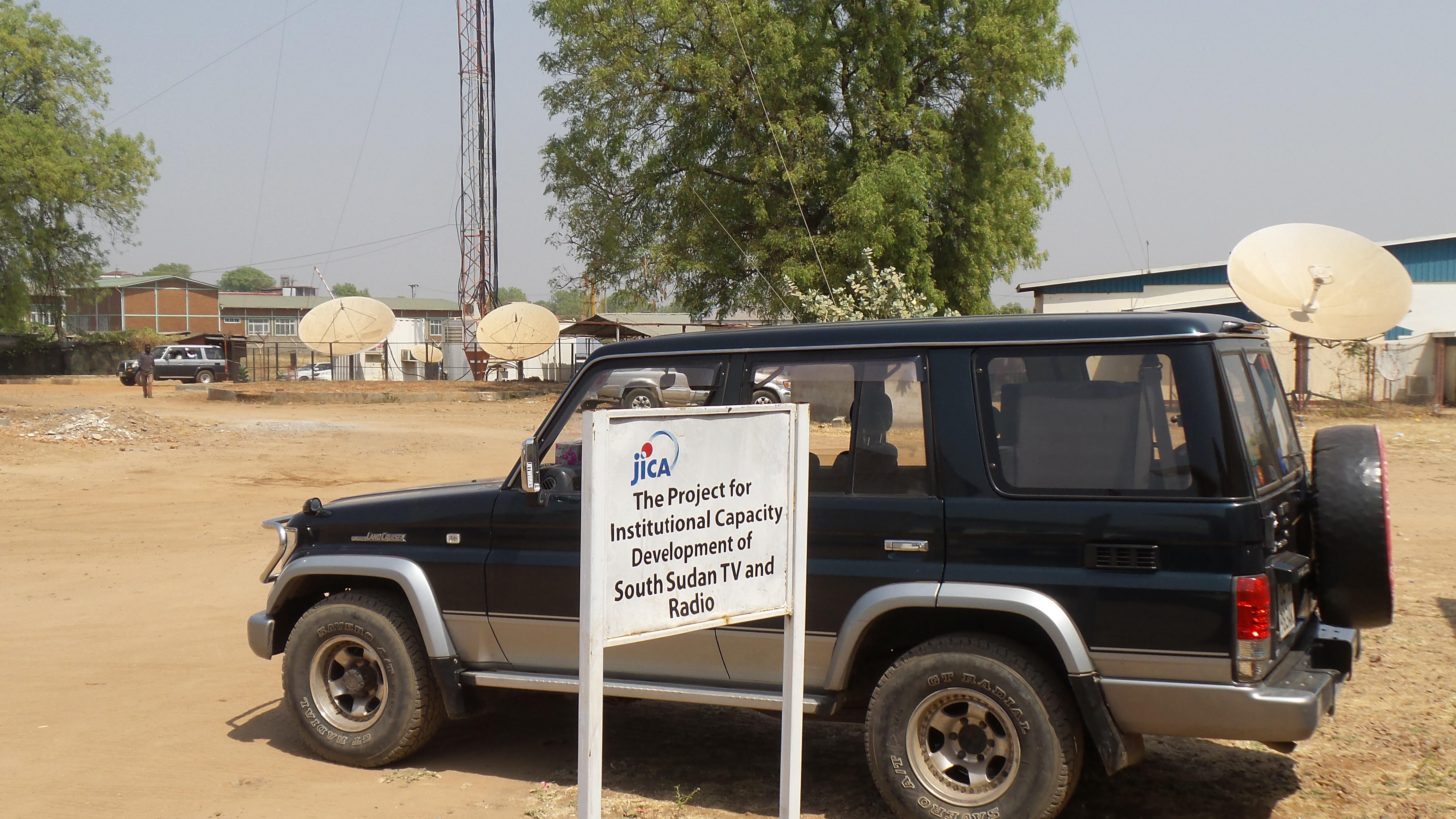 South Sudan Radio & Television in Juba, South Sudan, in February 2016